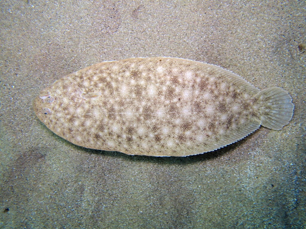 Pegusa nasuta photographed in Limnos, Greece.